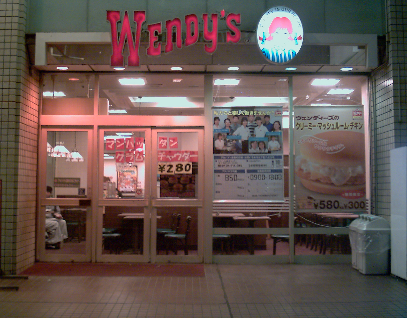 Wendy's - in daiei Tokorozawa store. (closed in the end of 2009)